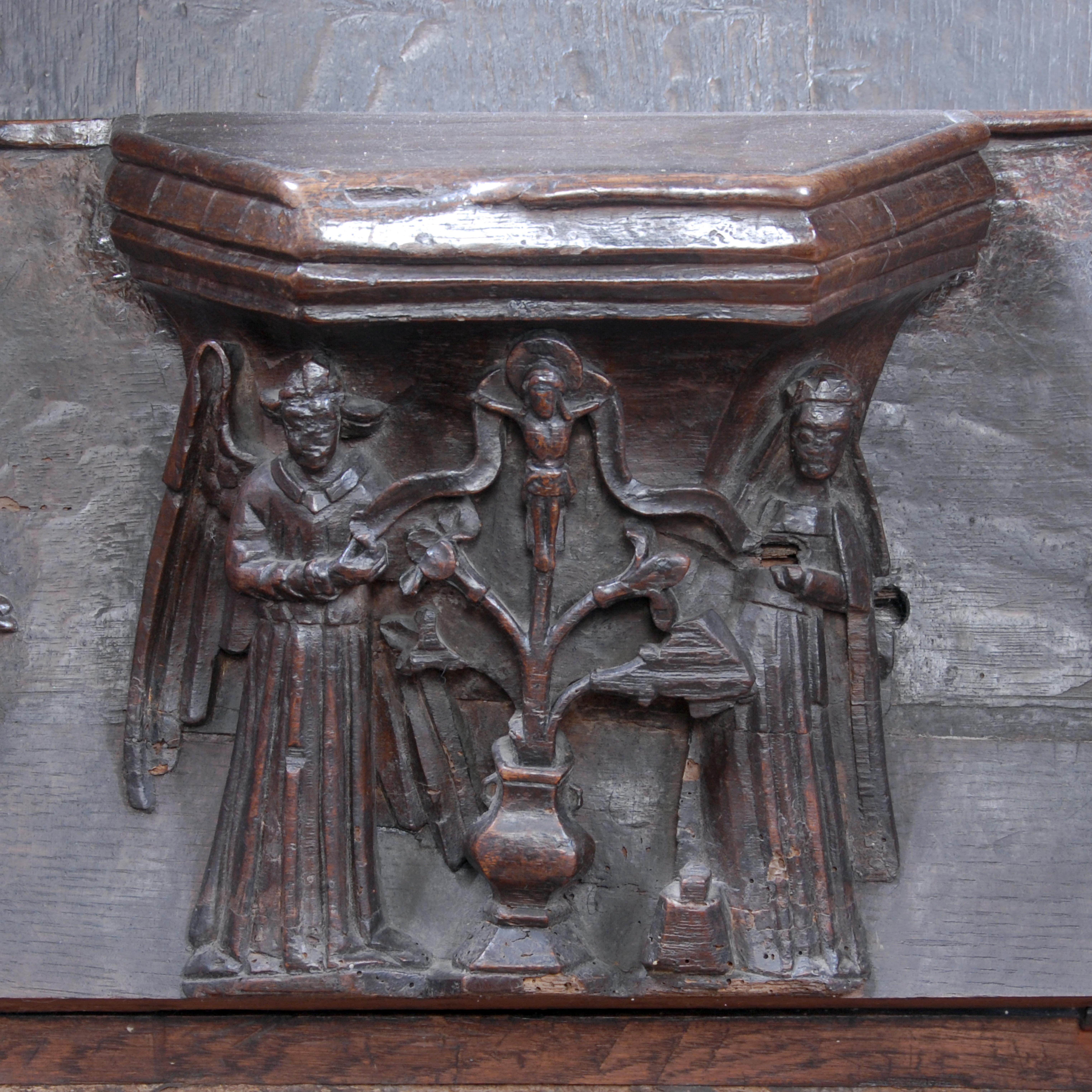 Lily crucifix misericord in St Bartholomew's parish church, Tong, Shropshire